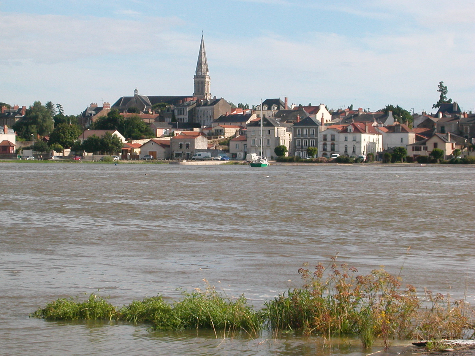 Port of Le Pellerin on the Loire River